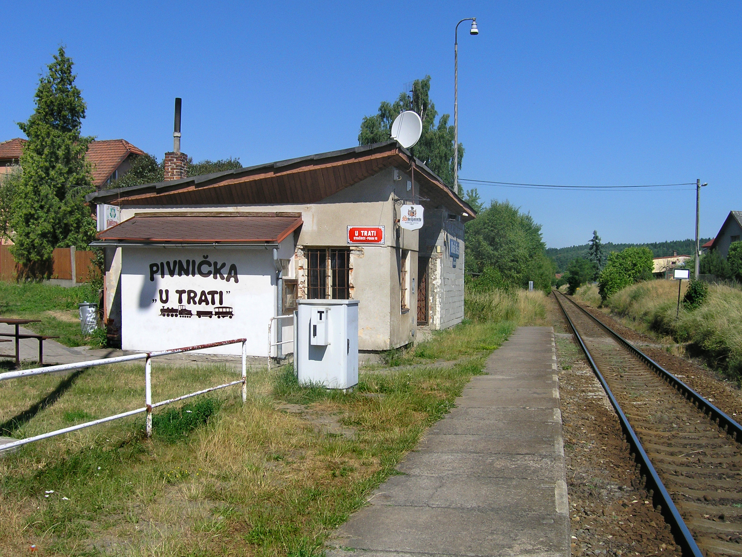 Restaurant in Malá Bělá, part of Bakov nad Jizerou, Czech Republic